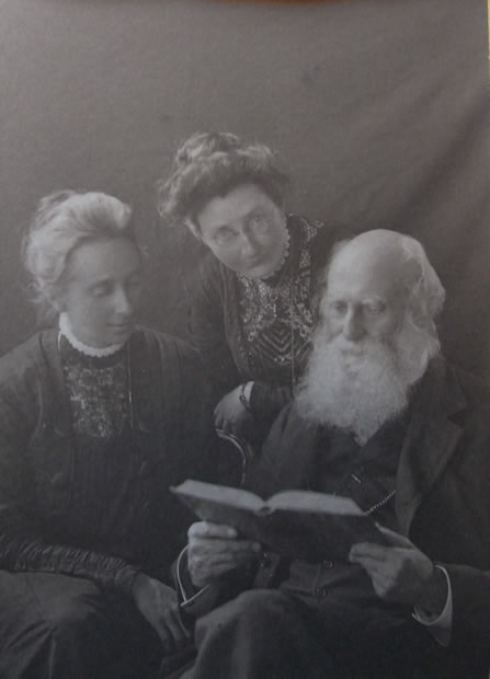 From left to right: Edith, Florence and Johnstone Stoney, taken circa 1910s